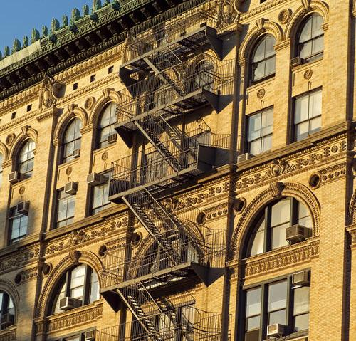 Image taken by self, all rights released.